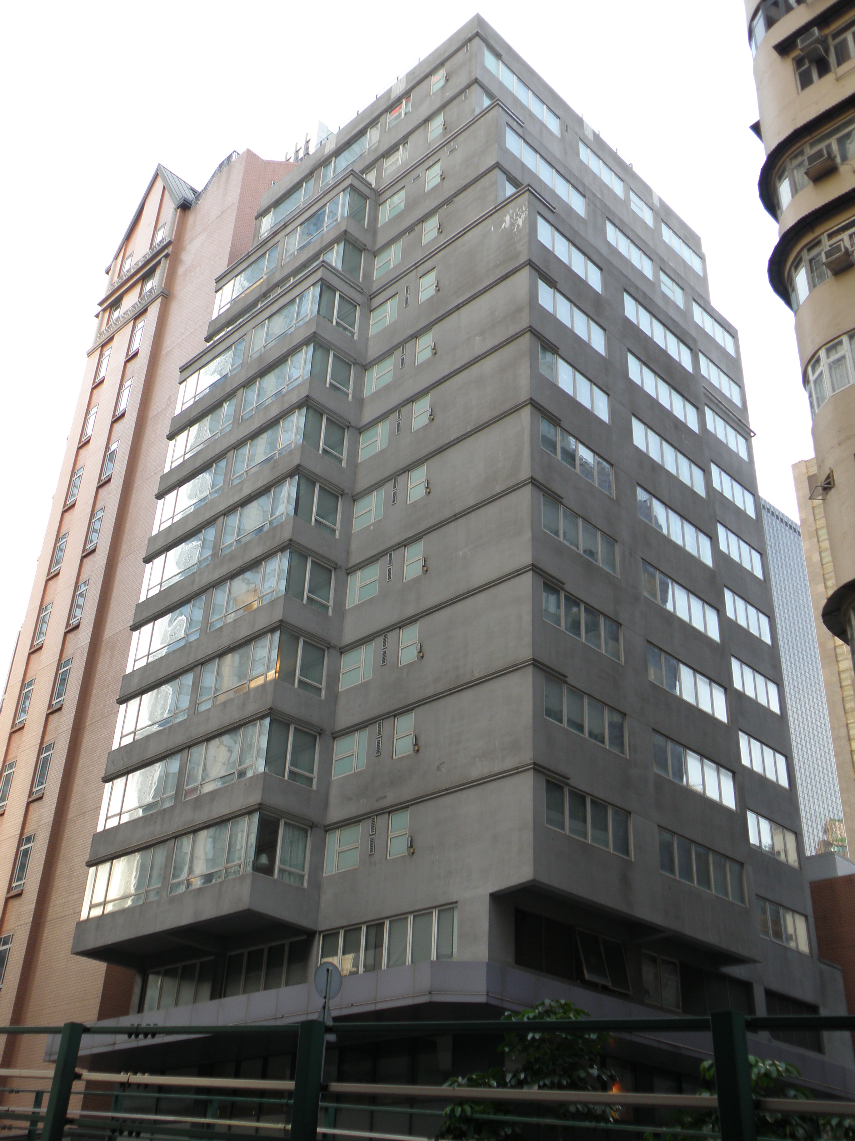 The Fleming Hotel in Wan Chai, Hong Kong.